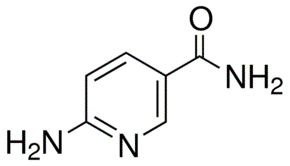 2D structure of 6-aminonicotinamide.